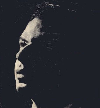 Chito Zeballos. Folk singer. La Rioja. Argentina